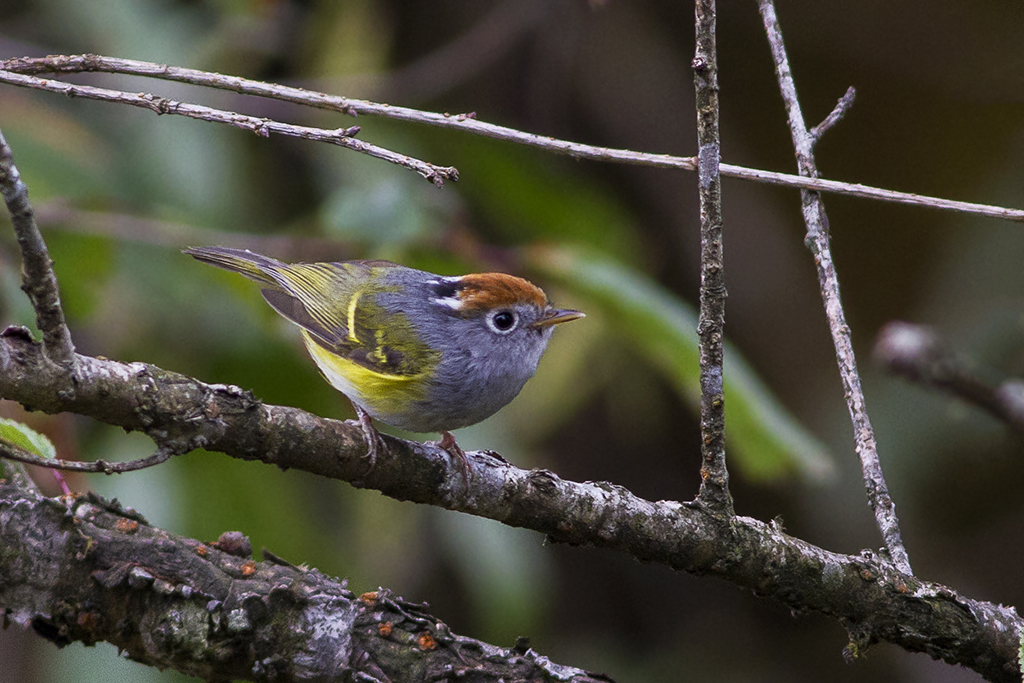 This species of warbler has been photographed from Fambong Lho Wildlife Sanctuary in Sikkim in India on 27th March 2014.